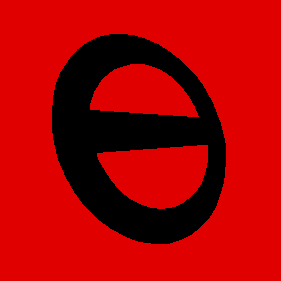 Own Work